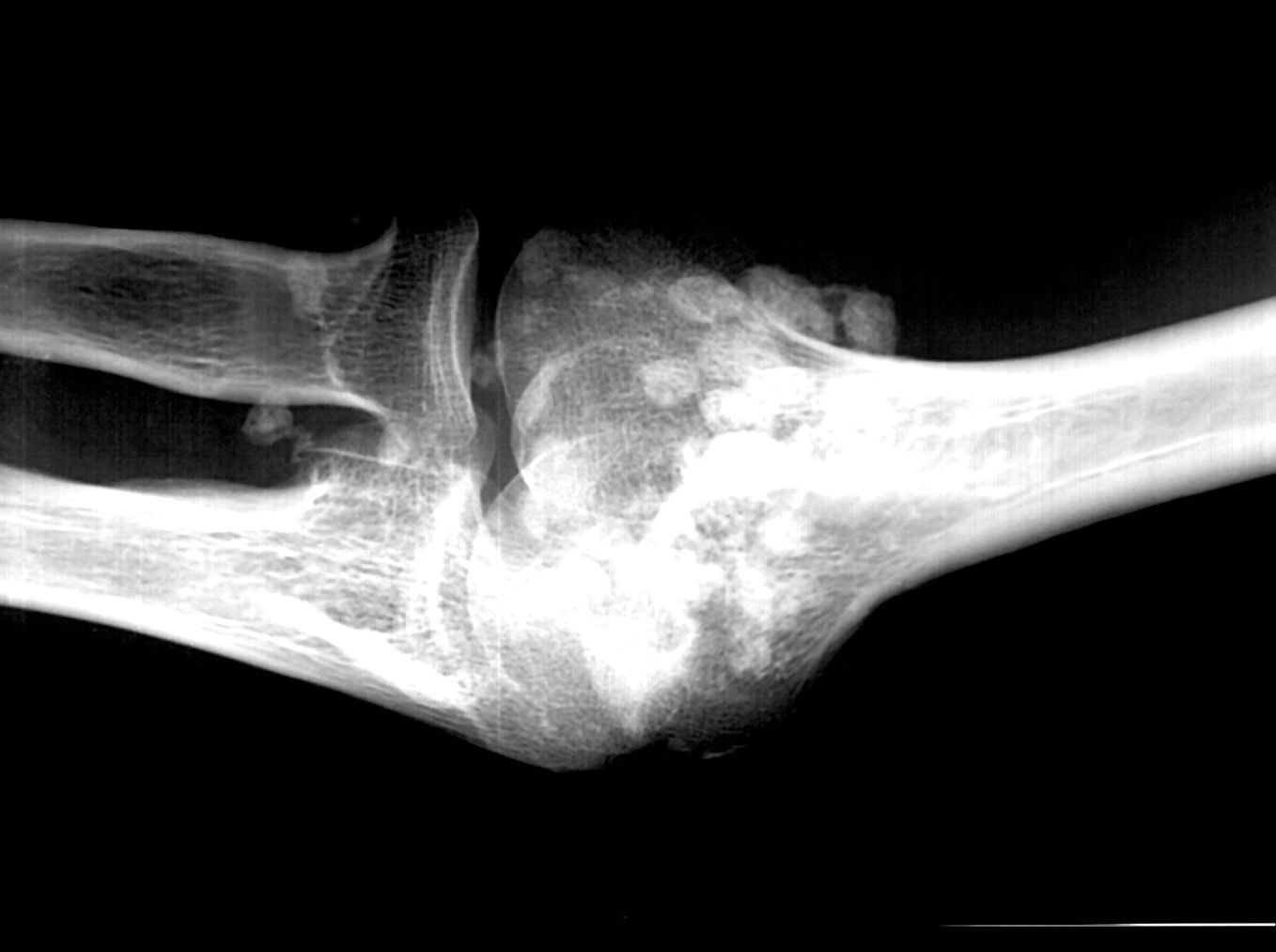 Synovial chondromatosis